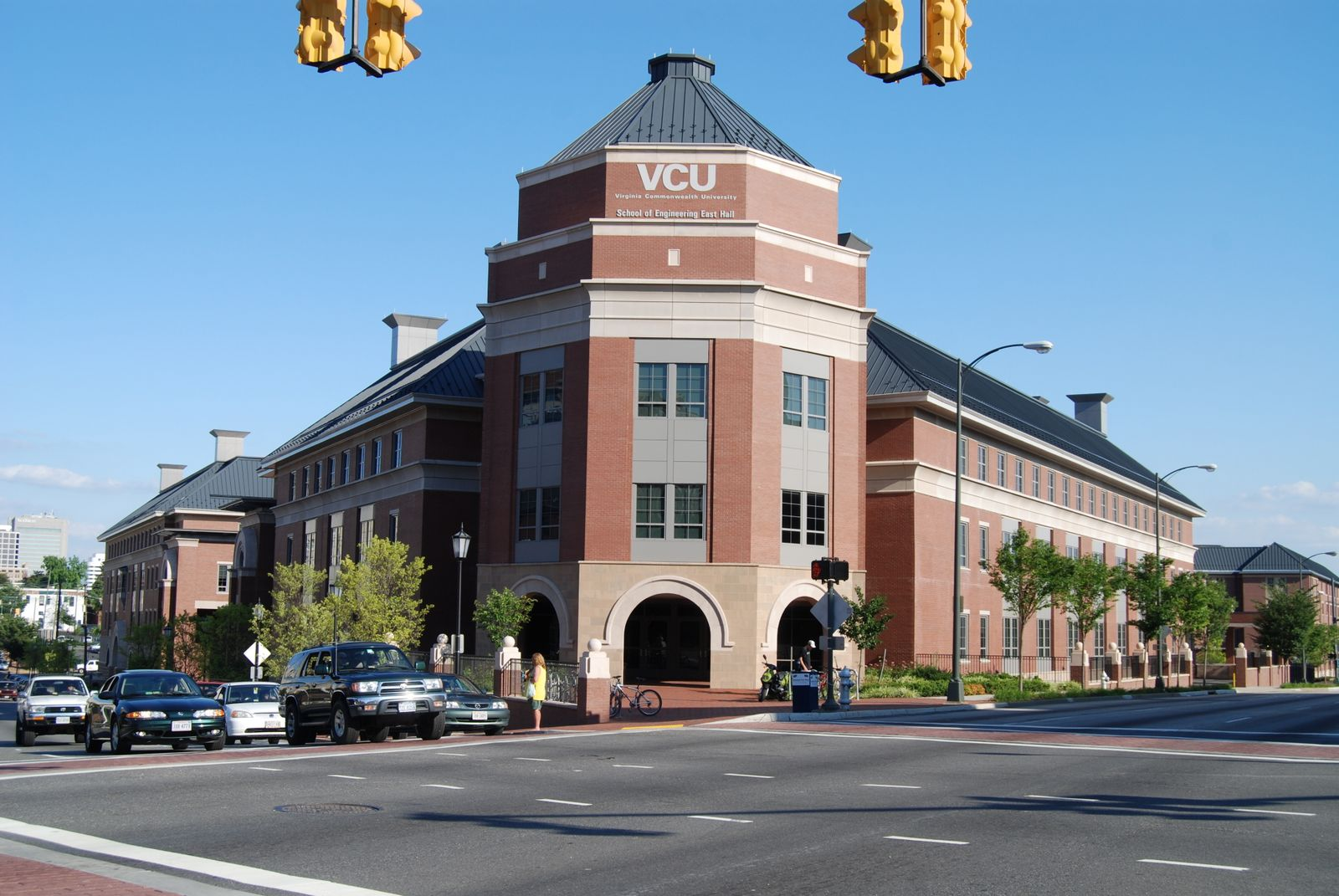 VCU Business & Engineering building by Jeff Auth